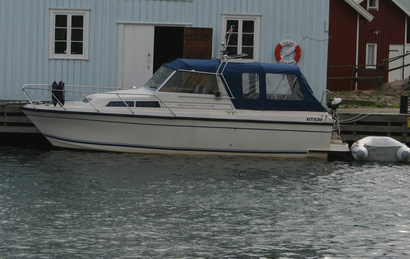 Motor boat Nimbus 2700